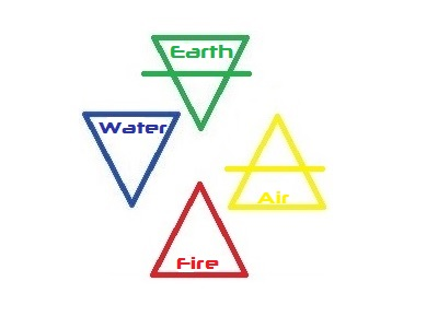 Elemental signs